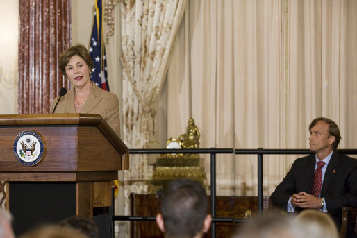 Newly sworn-in Ambassador Mark Dybul, Coordinator of the Office of the US Global AIDS, looks at Mrs. Laura Bush as she speaks to an audience of Ambassadors to the United States, government officials, representatives from the public health sector and Non-Governmental Organizations Tuesday, October 10, 2006, during the swearing-in ceremony of Ambassador Mark Dybul in the Benjamin Franklin Room at the U.S. Department of State in Washington, D.C. Ambassador Dybul will coordinate and oversee the U.S. global response to HIV/AIDS, and lead implementations of the U.S. President's Emergency Plan for AIDS Relief (Emergency Plan/PEPFAR), the largest commitment ever by any nation for an international health initiative dedicated to a single disease. White House photo by Shealah Craighead